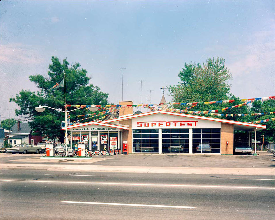 Photographer: Alexandra Studio ca. 1965 City of Toronto Archives Series 1057, Item 574